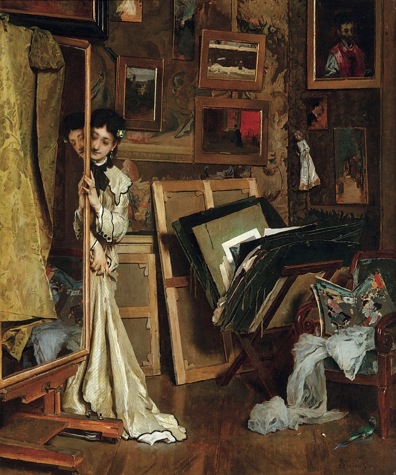 La Psyche